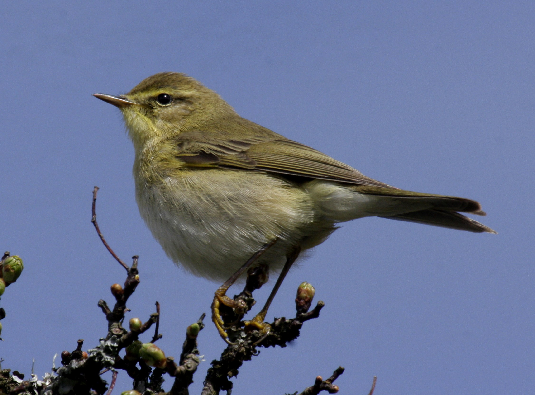 Willow Warbler Phylloscopus trochilus, Whiteworks, Dartmoor, Devon, England